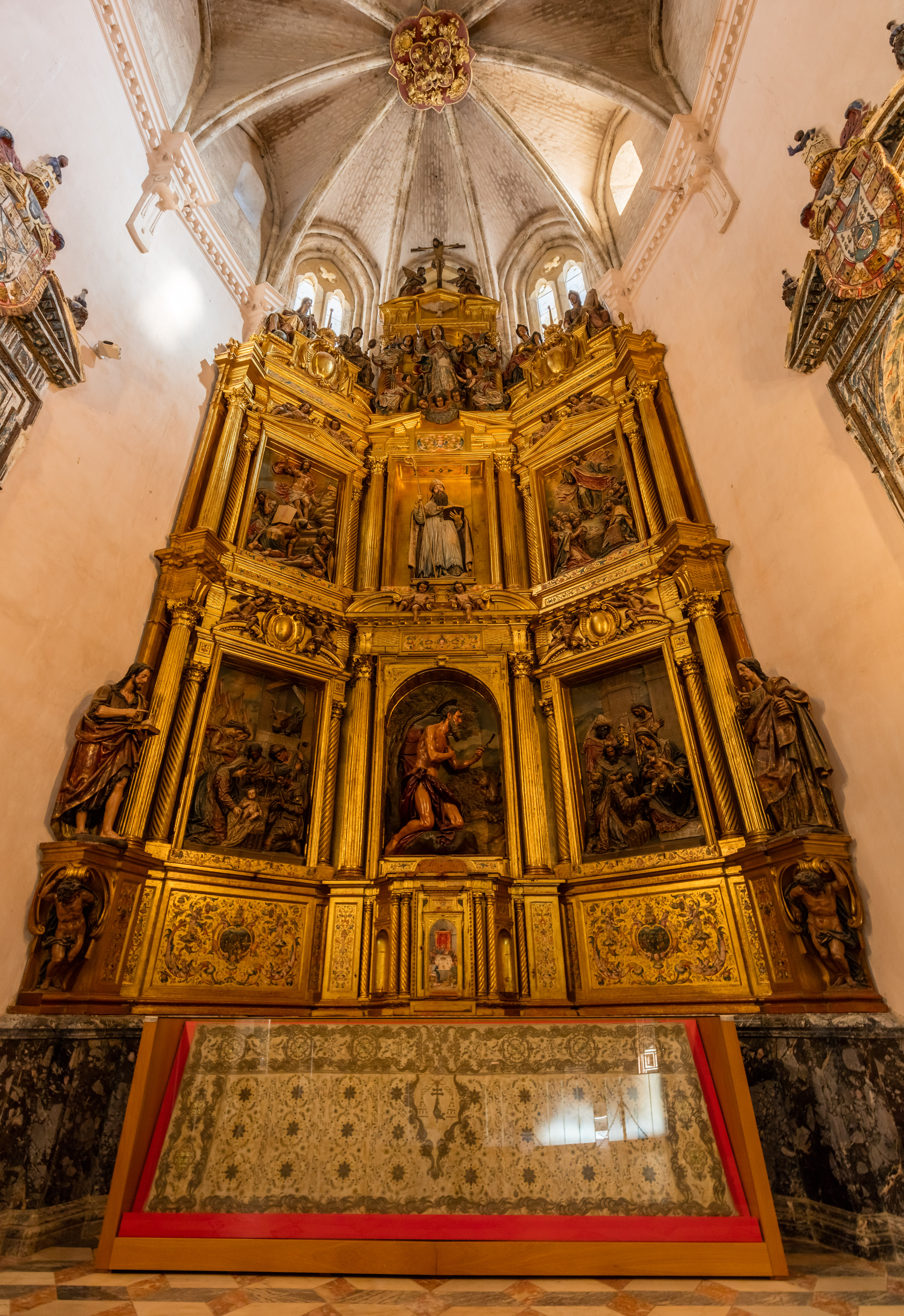 Monastery of San Isidoro del Campo, Santiponce, Seville, Spain